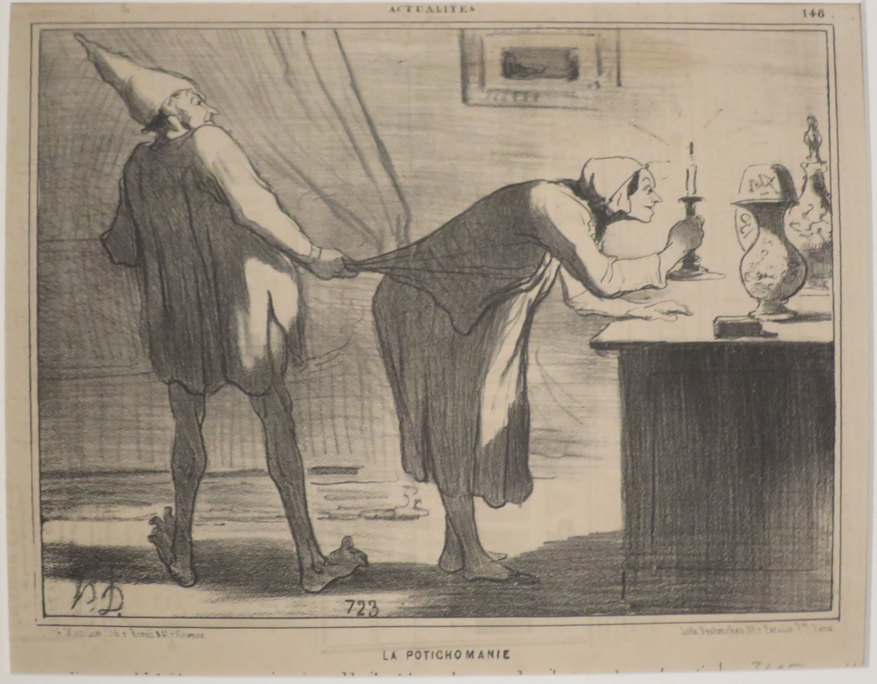 La Potichomanie - Voyons, Adélaïde, voyons, sois raisonnable, il est temps de se coucher, il est une heure du matin! - Adolphe... laisse-moi contempler mon ouvrage, c'est encore cent fois plus joli à la chandelle!.... by Honoré Daumier, lithograph, Honolulu Museum of Art accession 13511